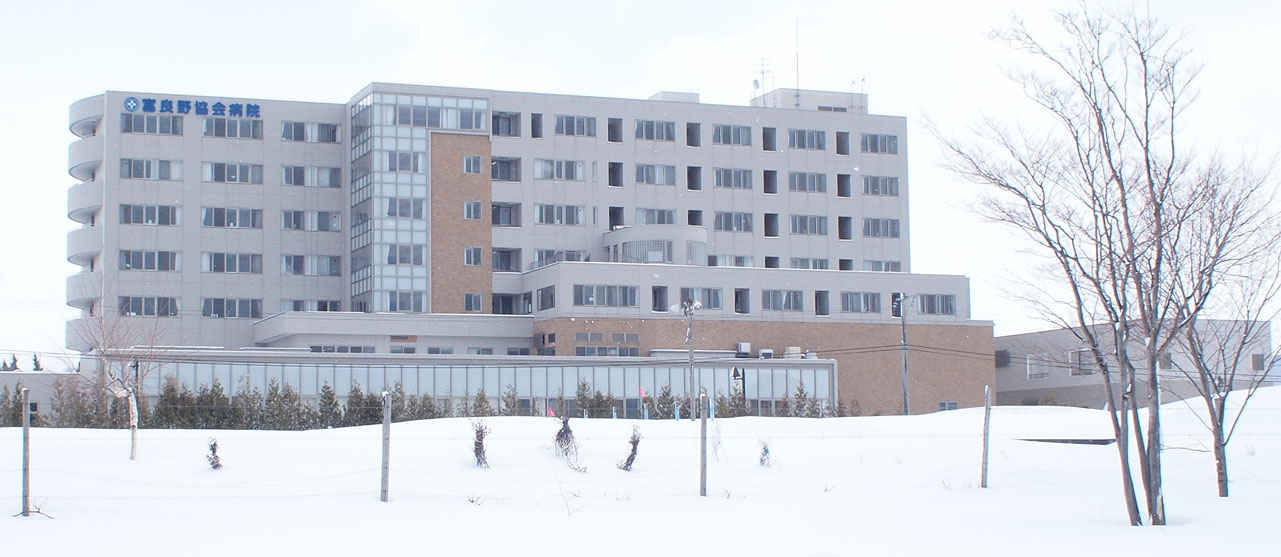 Furano hospital, Furano, Hokkaido, Japan